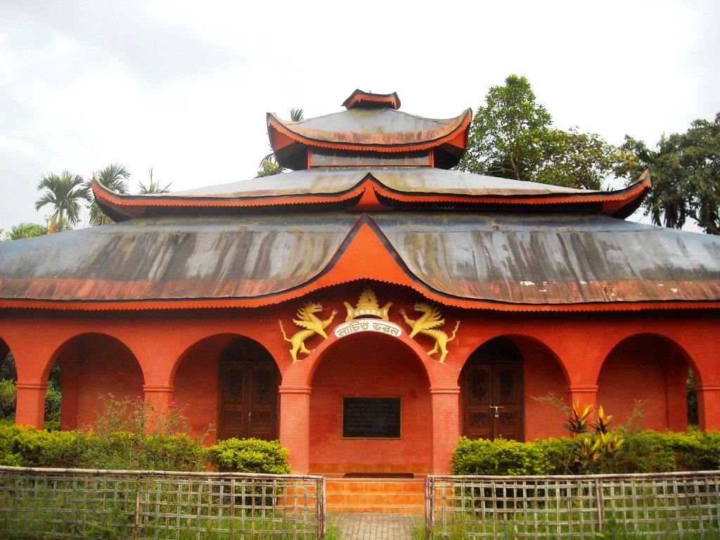 Ahoms led by general Lachit Barphukan defeated the Mughls led by Ramsingh in battle of Saraighat in 1671. He died a year later and his last remains were laid under this tomb (Maidam) constructed by Swargadeo Udayaditya Singha in 1672 at Hoolungapara, 16 kms east of Jorhat city.